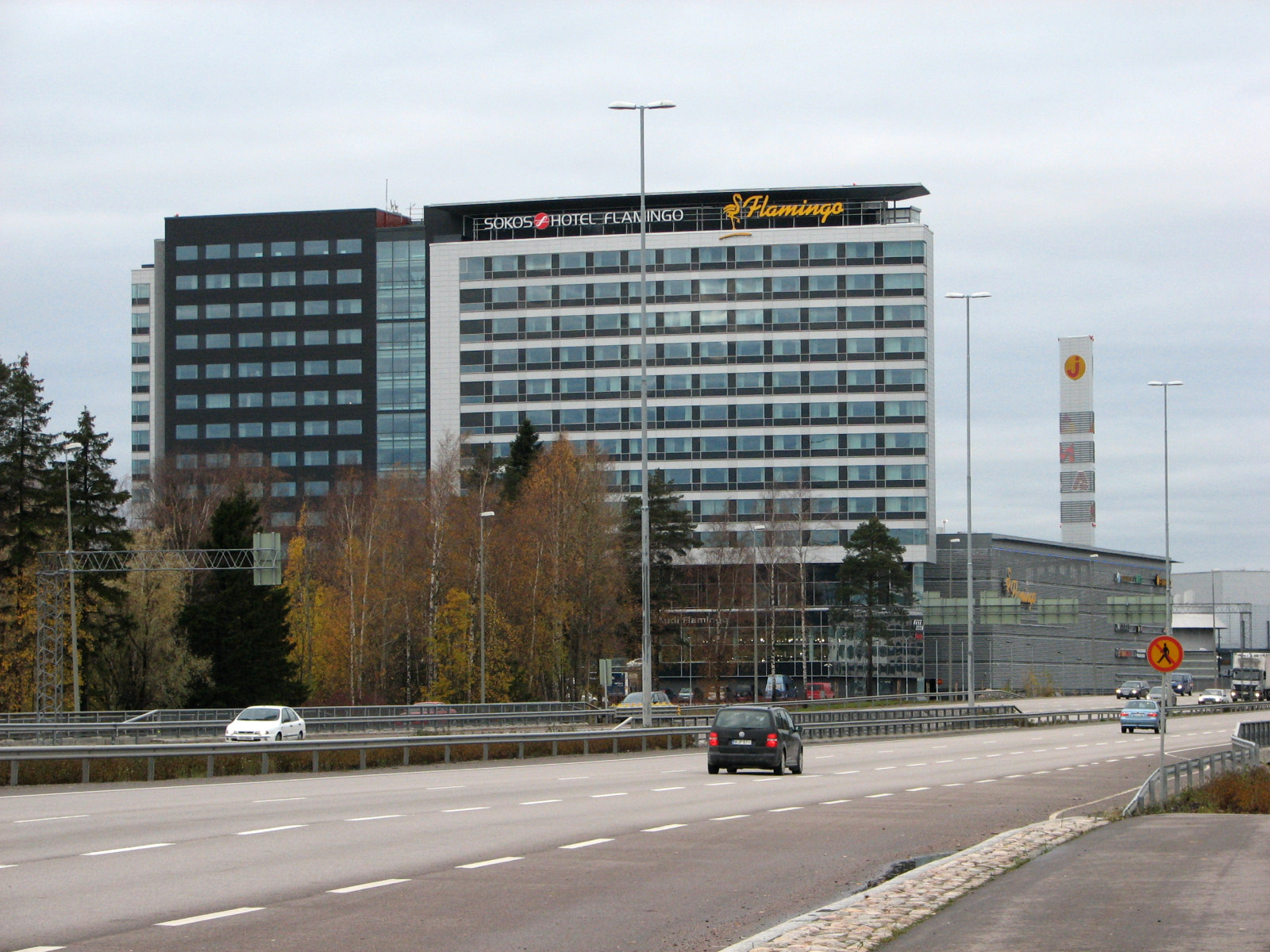 Entertainment centre Flamingo in Vantaa, Finland.